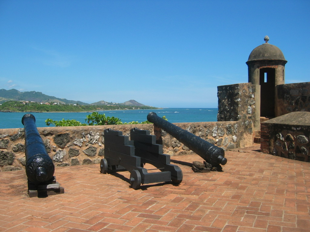 Overlooking the Atlantic Ocean from Fort San Felipe, in Puerto Plata, Dominican Republic.